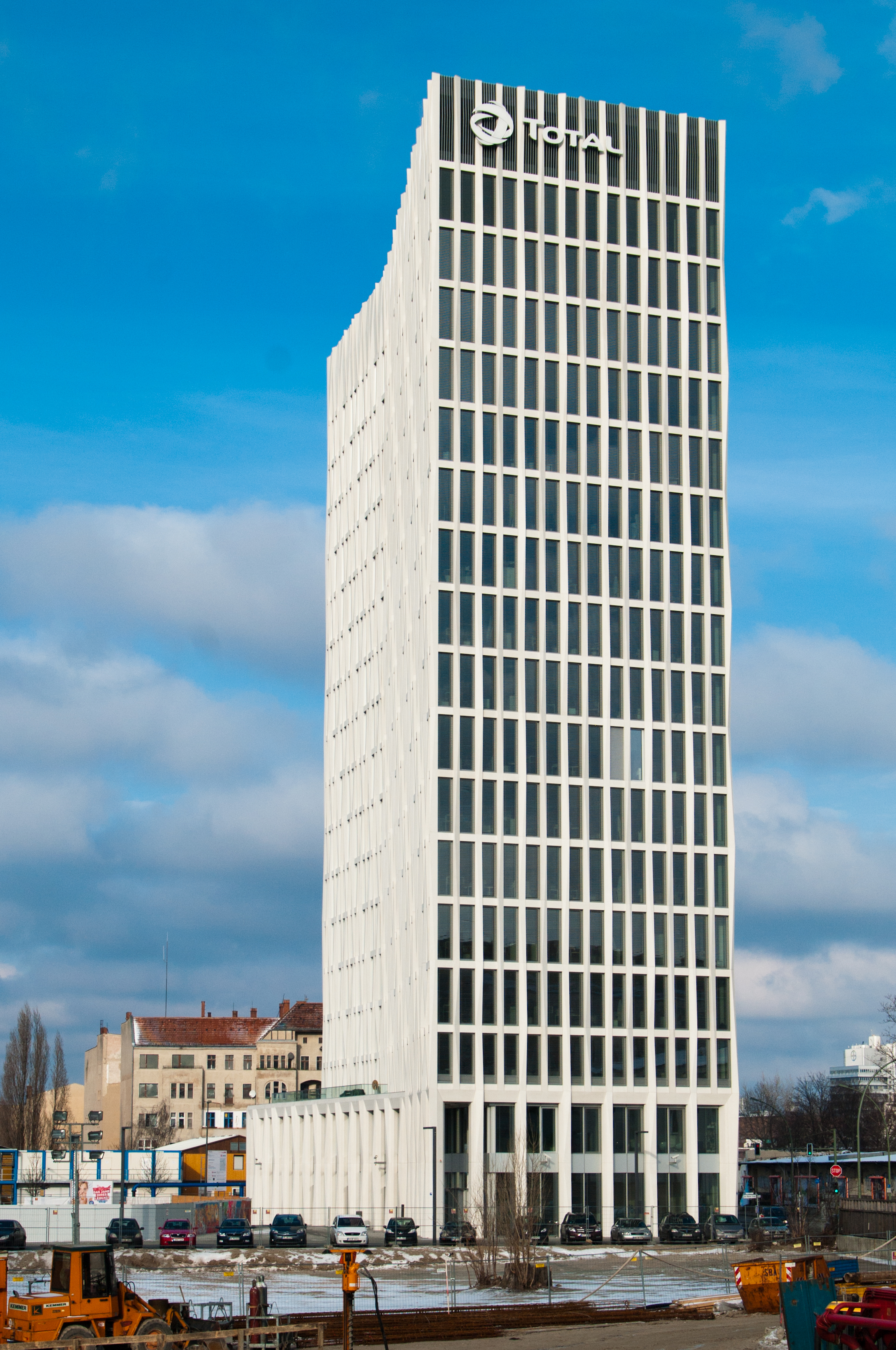 Tour Total in Berlin-Moabit